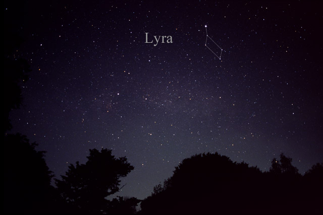 Photography of the constellation Lyra, the lyre